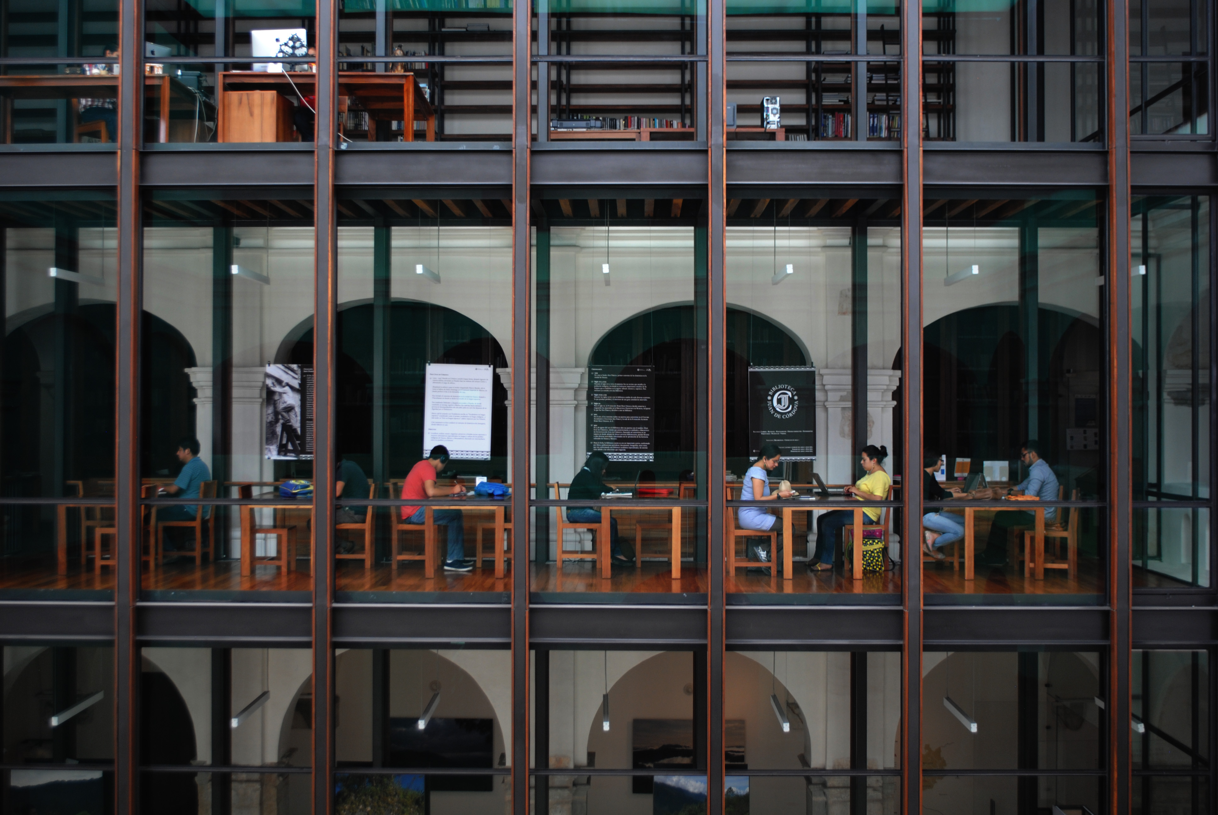 The Academic and Cultural Center San Pablo is an institution of academic services located in the former convent of San Pablo in Oaxaca. Share office space with the directives and other initiatives Oaxaca Alfredo Harp Helú Foundation, AC